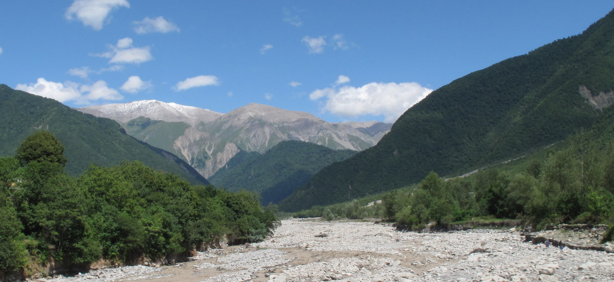 photos from azerbaijan, as part of trip documented on in sheki